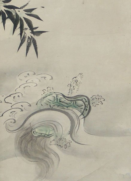 Japanese Edo Period (1603 to 1868) bamboo scroll of a minogame